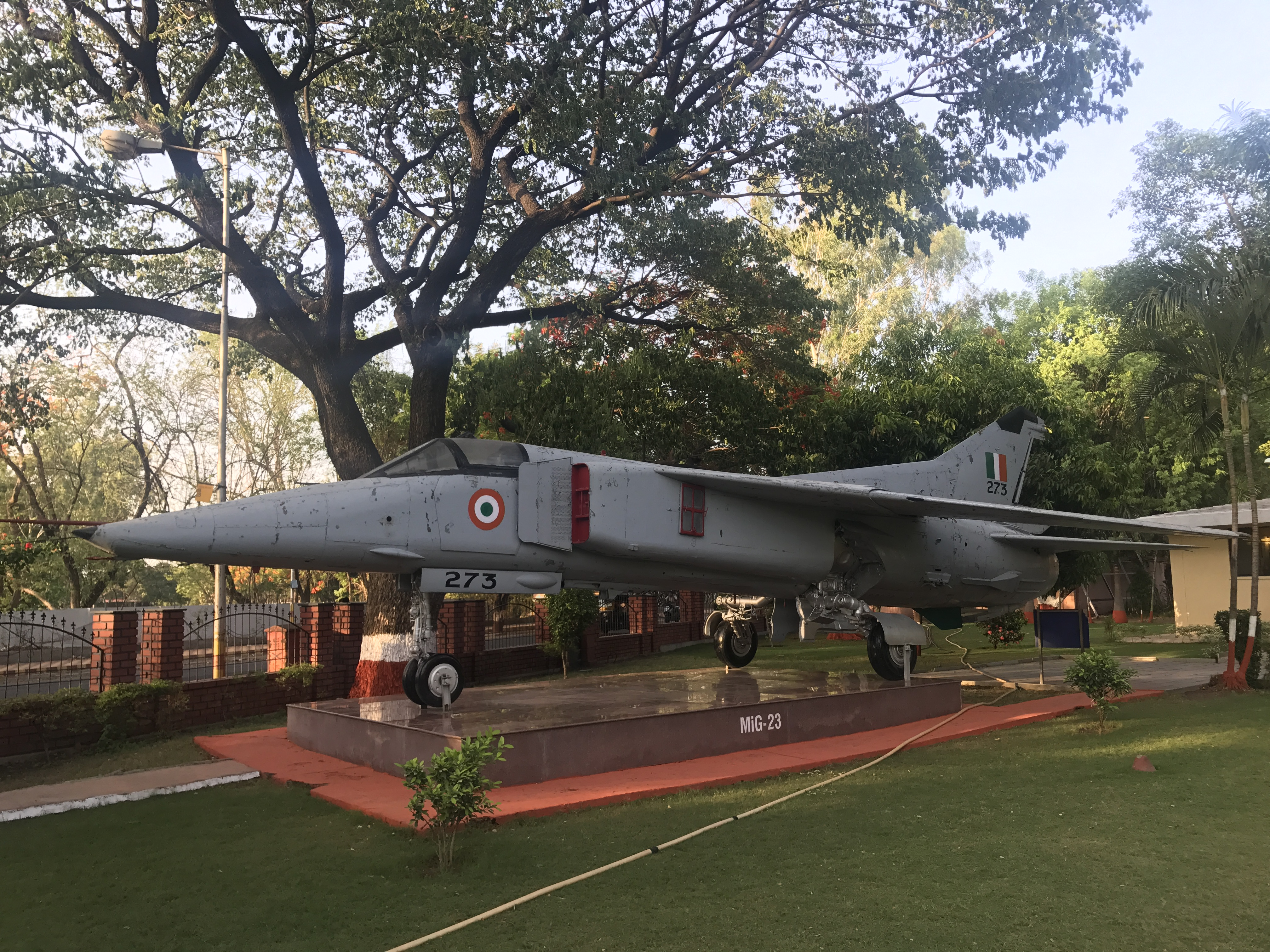 This is MiG-23 Aircraft which is the first swing wing fighter to be inducted into the IAF. The aricraft was designed by the Mikoyan Gurevich design bureau of the erstwhile USSR and manufactured in 1982. The aircraft with No SM - 273 is the last MiG-23 Bn to fly in the world and landed at Pune on 26th March 2009. This aircraft was employed in Kashmir Valley during Operation Meghdoot for securing Siachen Glacier in Northern Ladakh. In 1985, MiG-23 Bn had got the unique distinction for being the first fighter aircraft ever to cross Banihal Pass in Jammu and Kashmir by night. On May 24, 1999 during the operation Safed Sagar, the MiG-23 Bn went into the action, targeting enemy position at Tiger Hill with 57 mm rocket and 500 kgs bombs. The aircraft has the distinction of being the aircraft type to fire maximum weapon load over enemy position in Kargil. MiG-23 Bn served the country splendidly for a period of 27 years and flew more than 154,000 hours into the Indian skies.